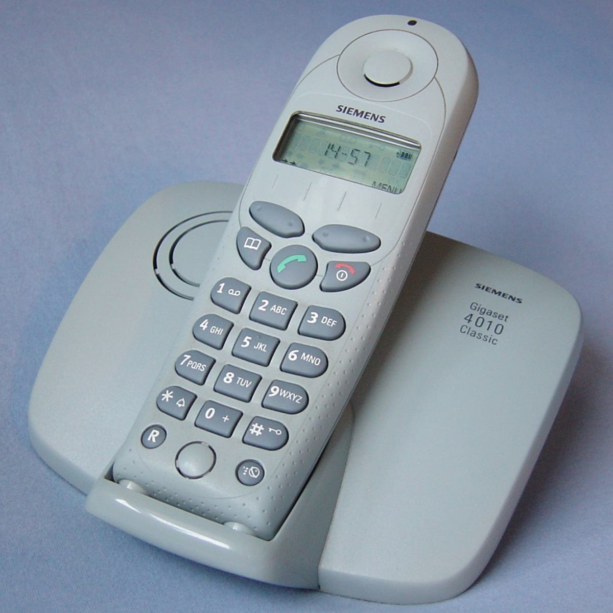 Siemens Gigaset 4010 Classic, cordless digital phone, DECT telephone